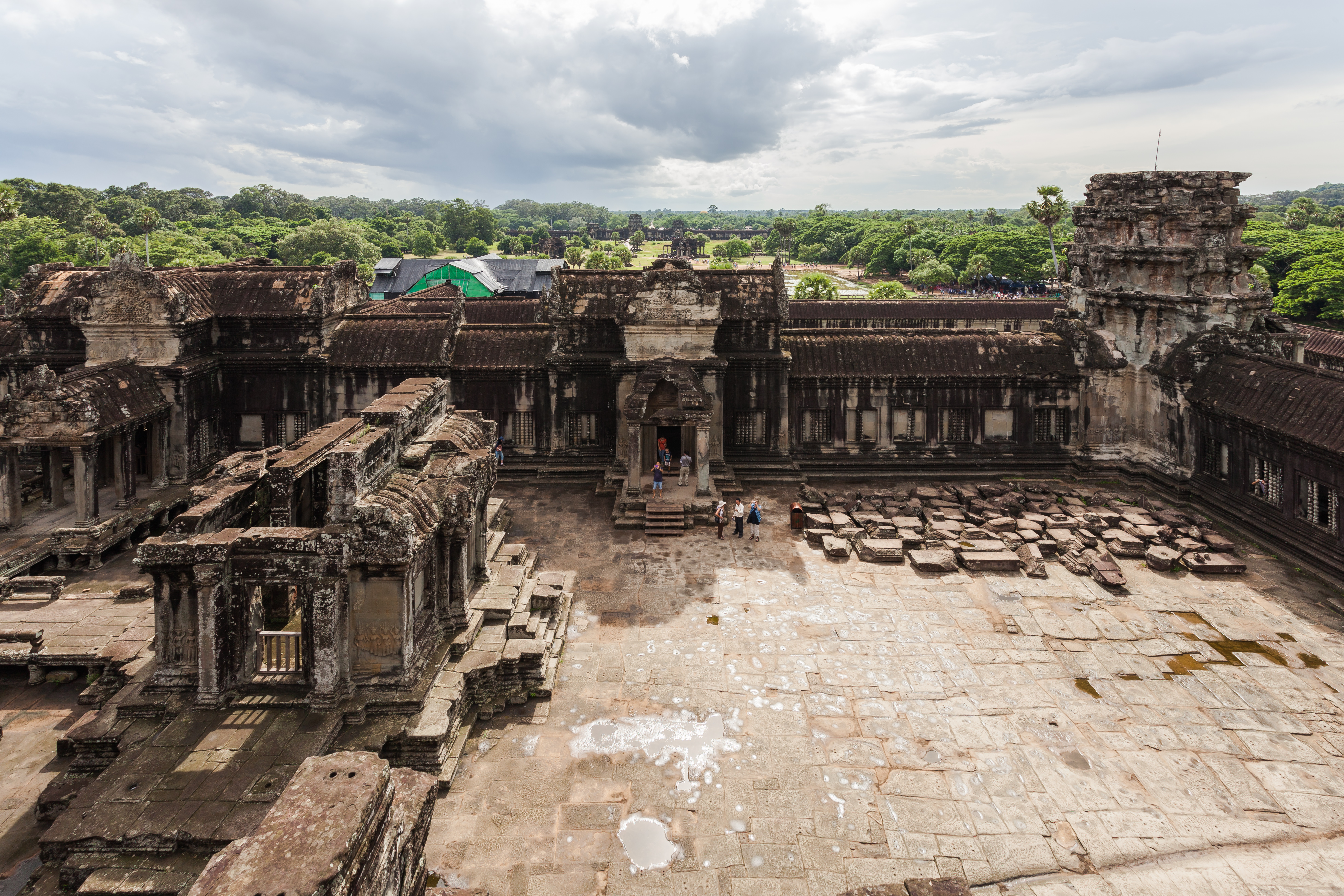 Angkor Wat, Cambodia